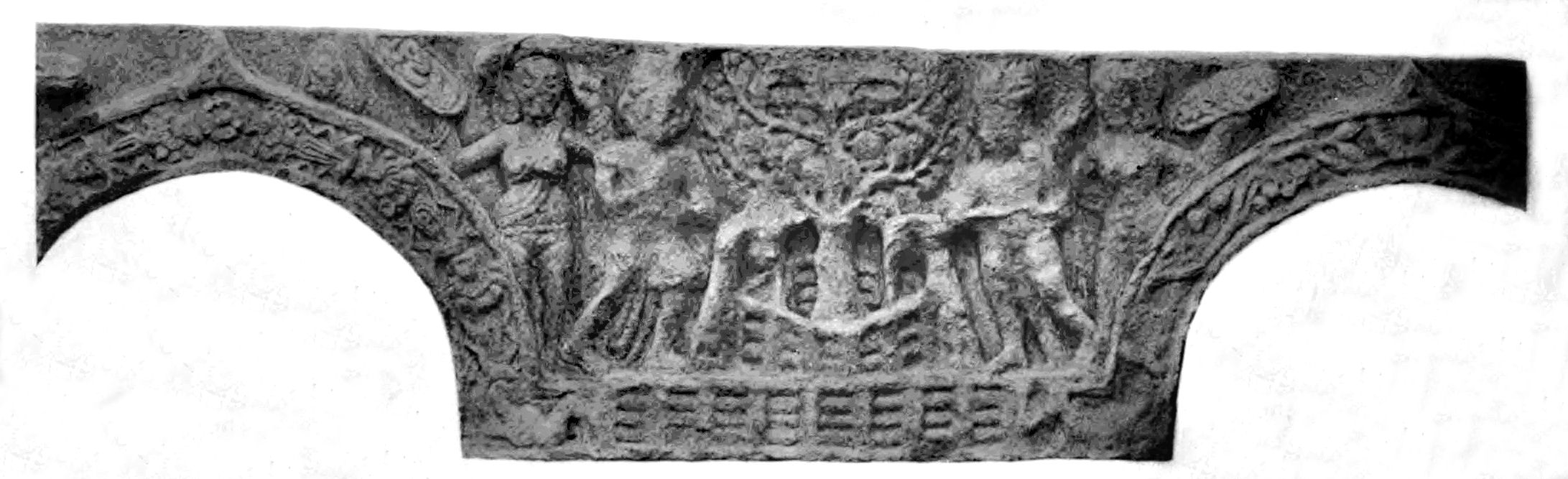 Katak Jaya Vijaya Tree worship